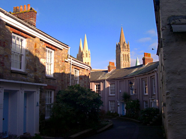 Cathedral Spires over Walsingham Place Walsingham Place is a very narrow street in Truro's City Centre just behind Victoria Square. The camera is unfortunately unable to properly do justice to this high contrast scene on a bright Winter morning.